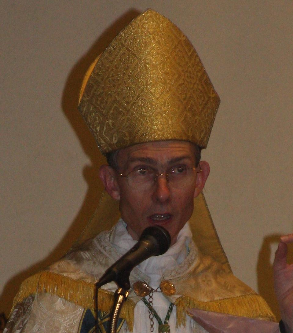 H.E. Bishop Bernard Tissier de Mallerais, Confirmation at St. Jude Roman Catholic Church, March 4, 2008